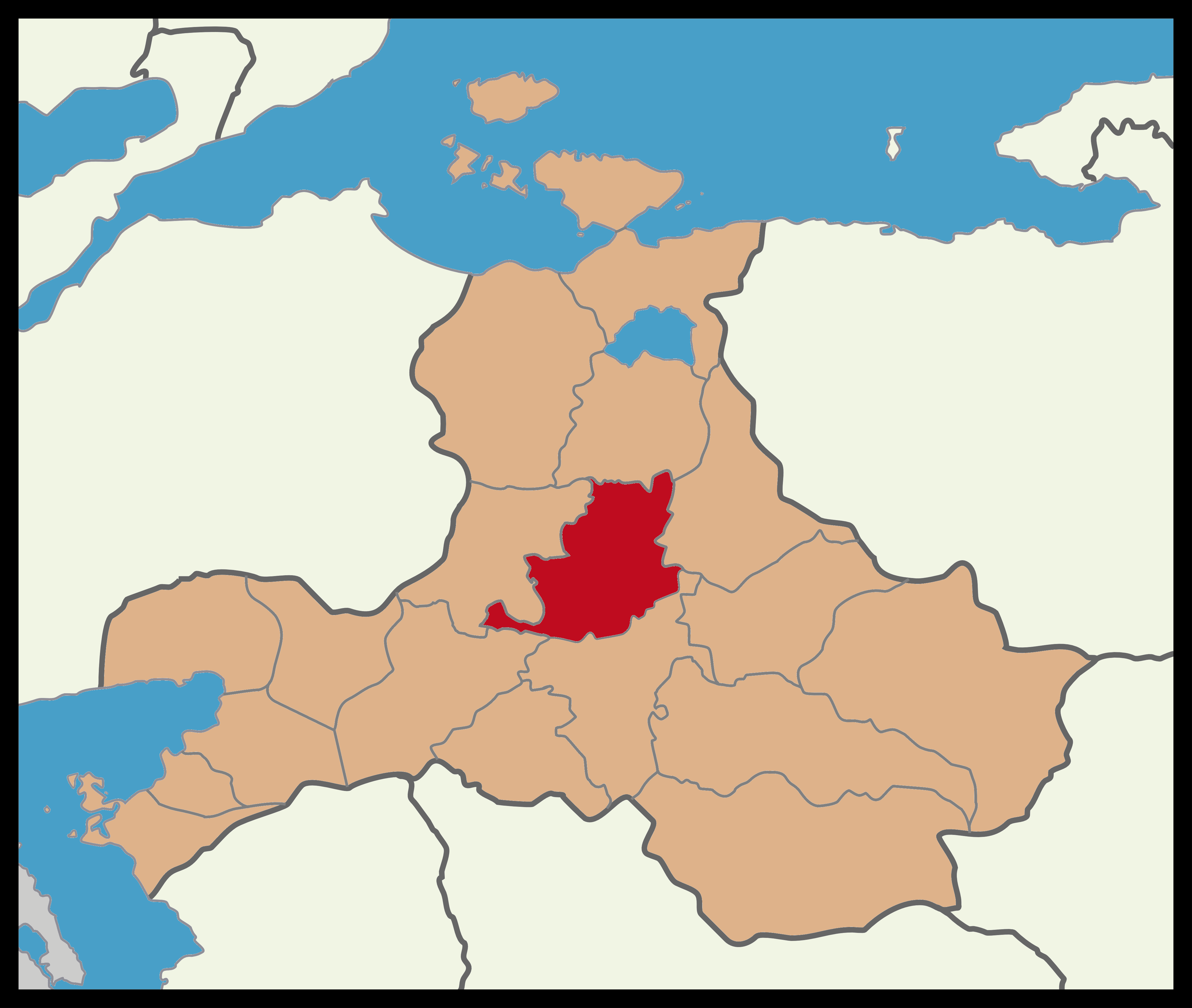 Map of the location of the Karesi (central) District, in Balıkesir Province, Turkey.